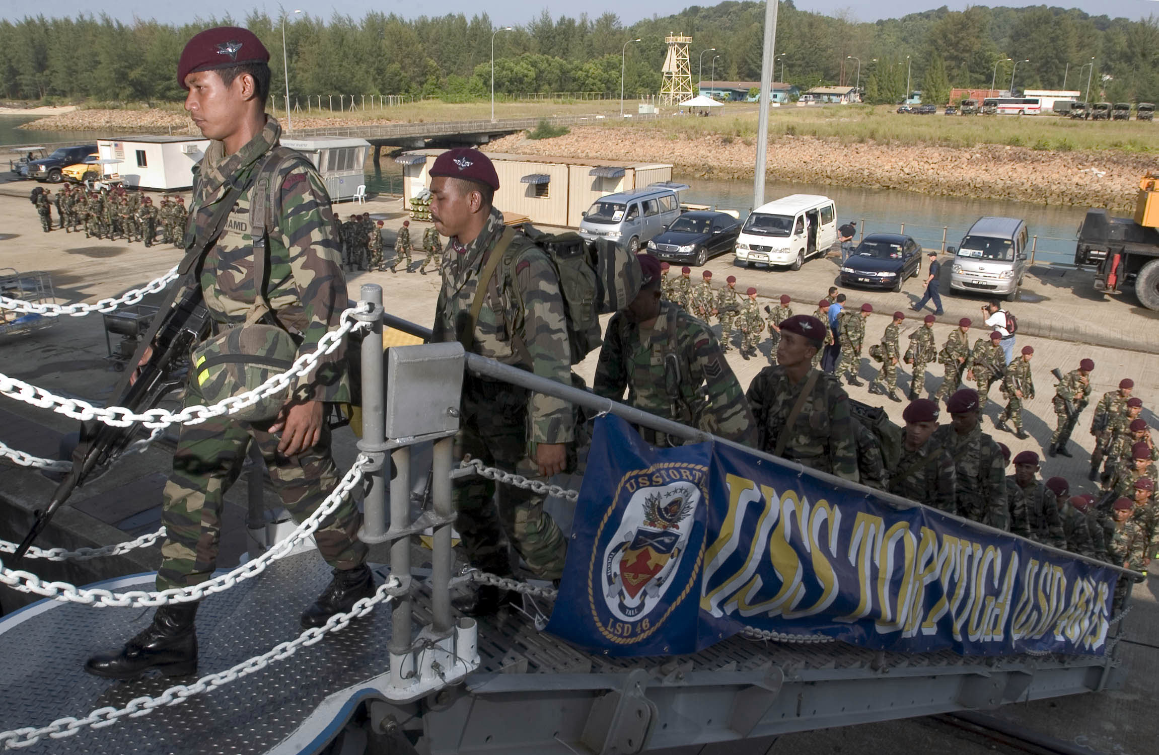 060728-N-9851B-001 Kemaman, Malaysia (July 28, 2006) - Paratroopers from the 9th Battalion Royal Malaysian Regiment board the amphibious dock landing ship USS Tortuga (LSD 46) to participate in a joint amphibious landing exercise scheduled to take place during the Malaysia phase of exercise Cooperation Afloat Readiness and Training (CARAT). Malaysia is the fourth phase of CARAT, an annual series of bilateral maritime training exercises between the United States and six Southeast Asia nations designed to build relationships and enhance the operational readiness of the participating forces. U.S. Navy photo by Mass Communication Specialist 2nd Class John L. Beeman (RELEASED)